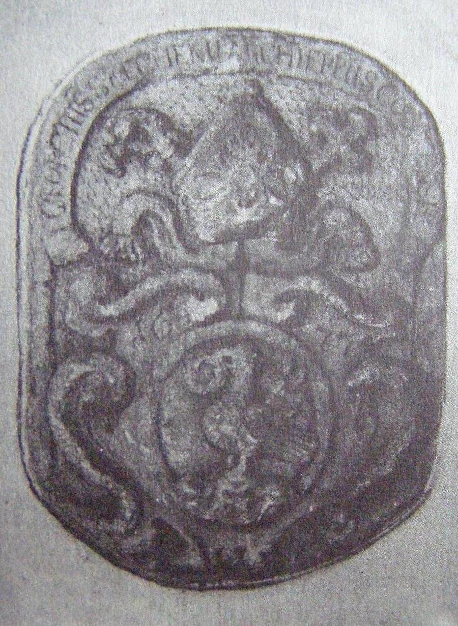 The coat-stone of György Széchényi on the St. Gotthard Church in 1677